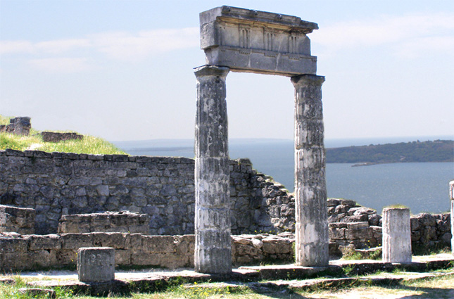 Panticapaeum (present-day Kerch, Ukraine)